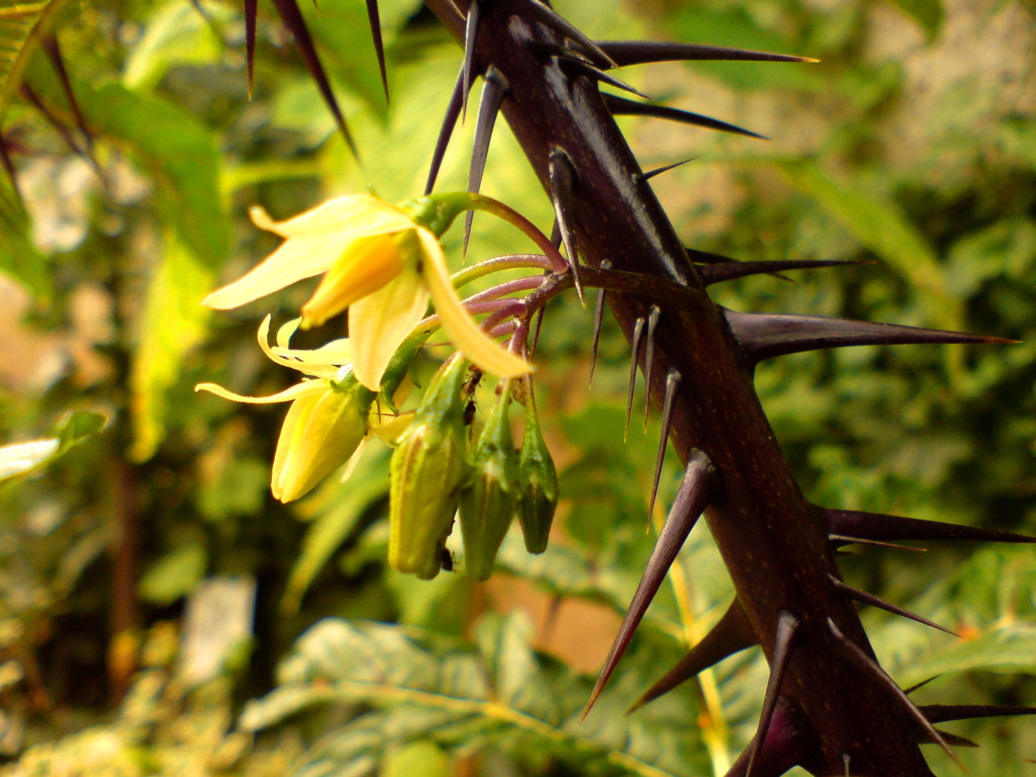 Solanum atropurpureum - Botanical Garden Göttingen